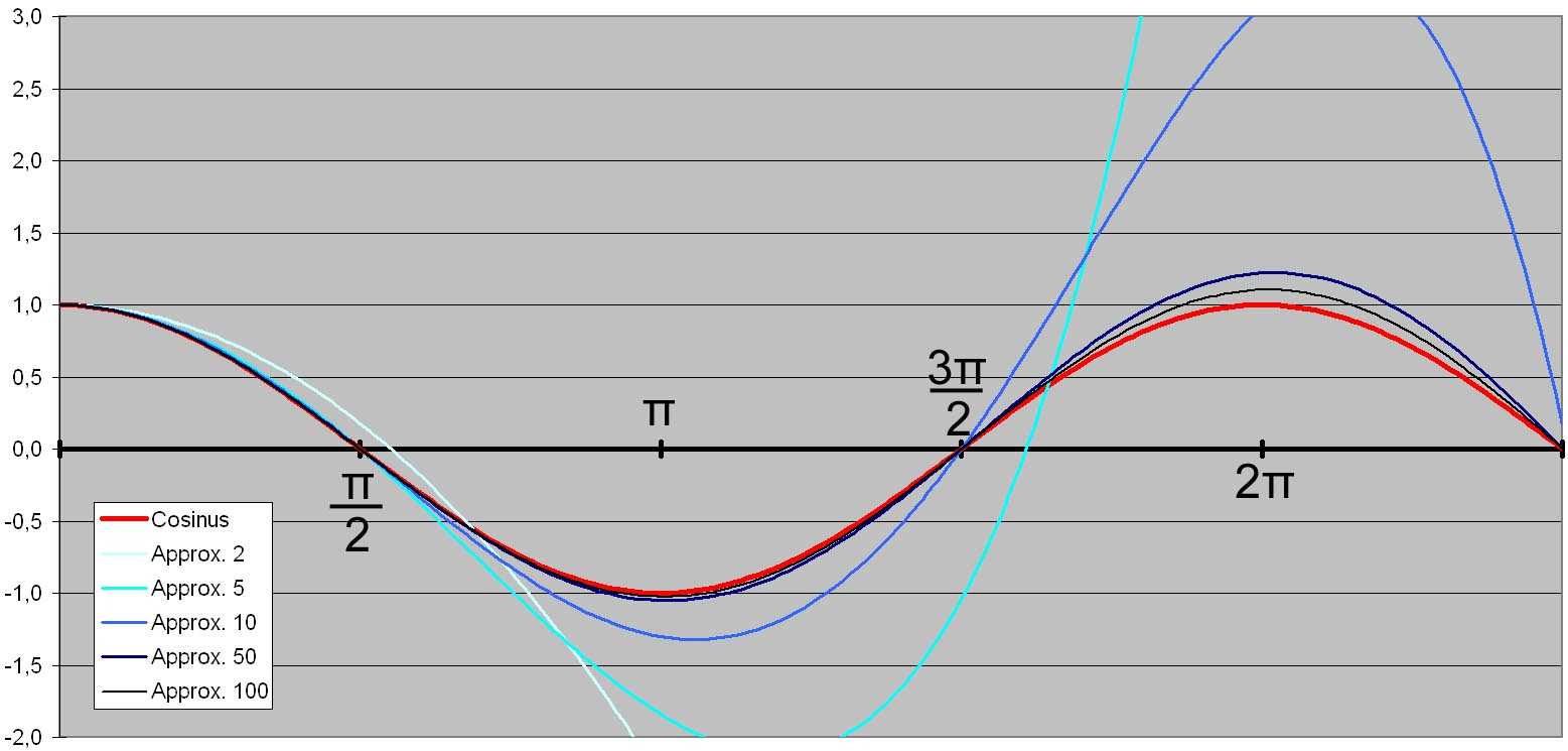 Convergence of a sequence of denominator of a continued fraction from a Padé approximant. The sequence converge towards the sinus function.